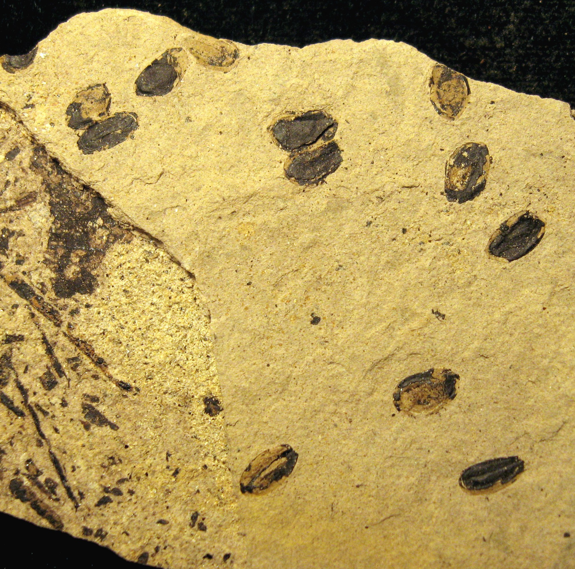 A group of dispersed fossil Nuphar carlquistii seeds. Ypresian, 49.5 million years old; Klondike Mountain Formation, Republic, Ferry County Washington, USA.